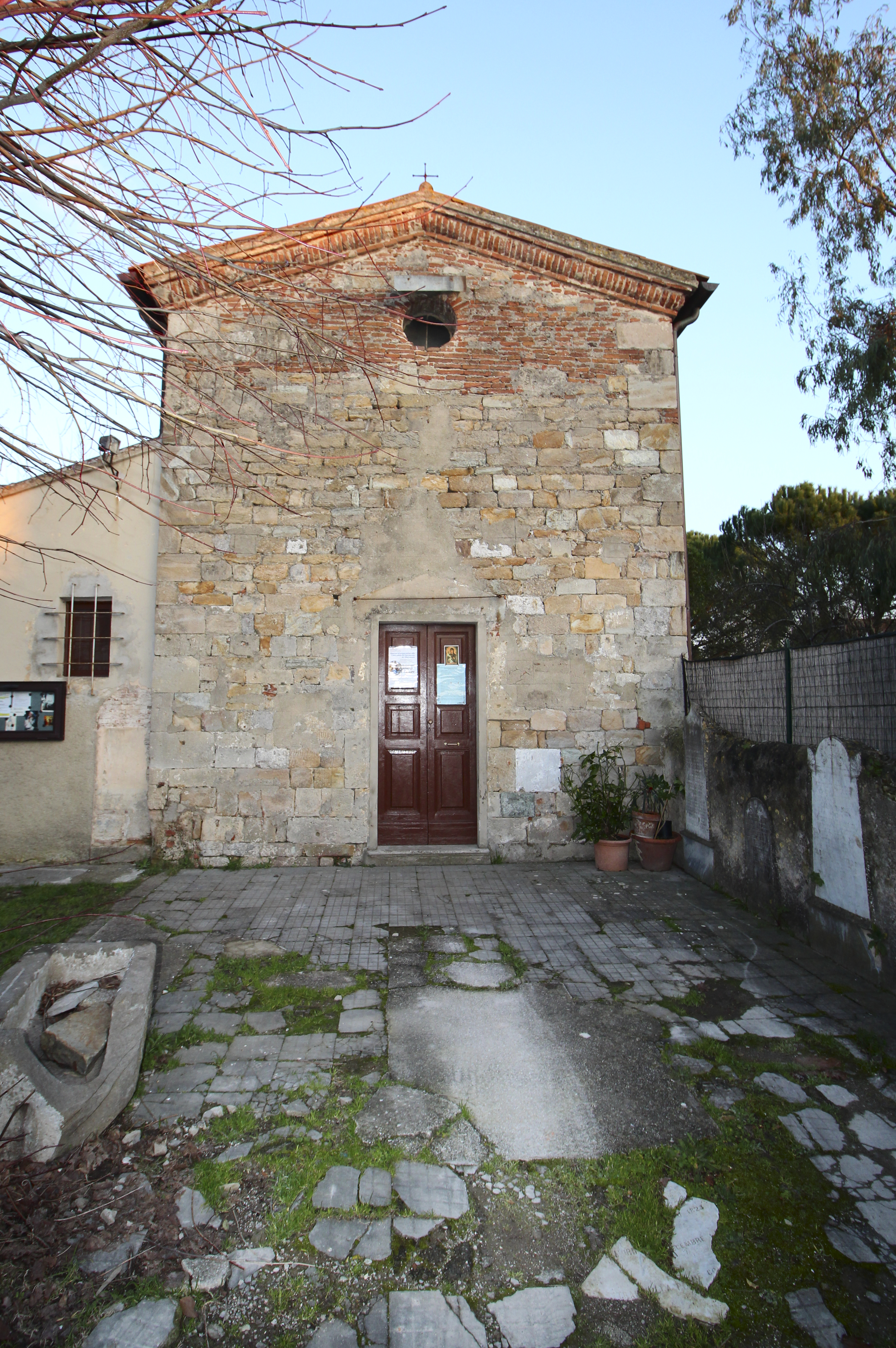 Church San Martino, Musigliano, hamlet of Cascina, Province of Pisa, Tuscany, Italy